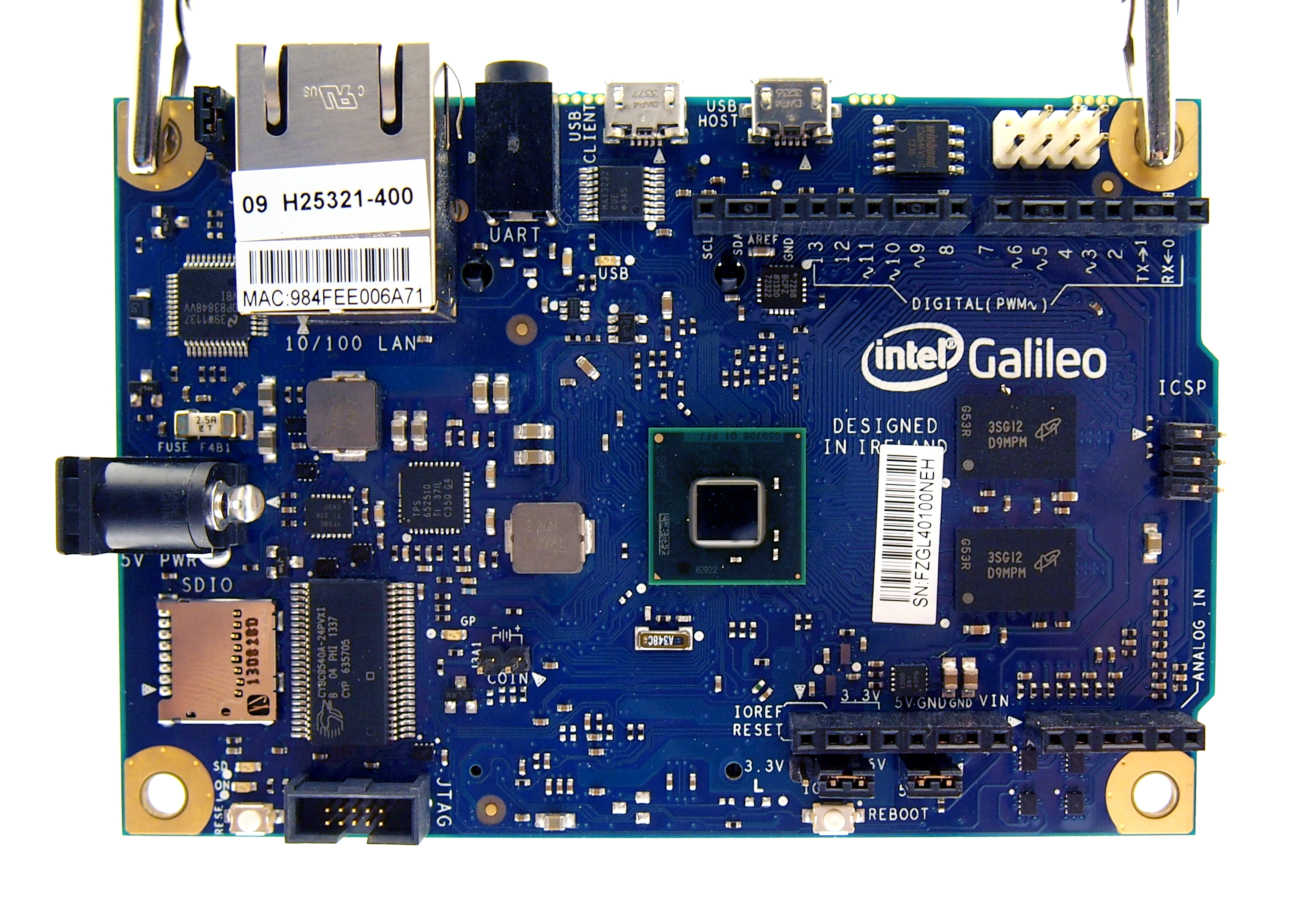 Embedded World 2014: Intel Galileo Developer Board